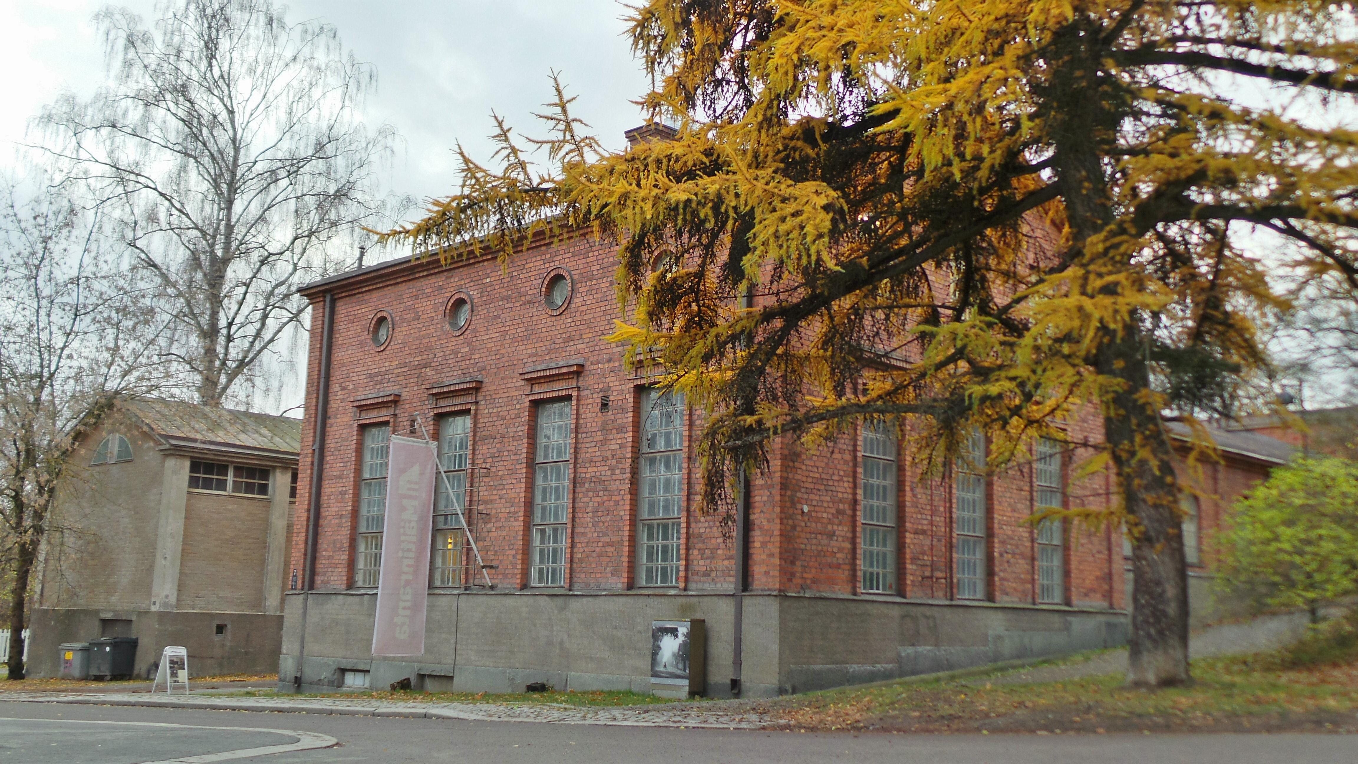 Kuninkaankatu